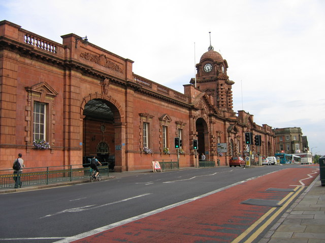 Rush hour in Nottingham! For a road passing immediately in front of a city's obviously major railway station and normally busy enough to require a bus lane to keep public transport moving, Carrington Street at 17:27 on this first Thursday afternoon in September 2005 was remarkably quiet: two pedestrians, one of whom has time to lean, one cyclist, two cars, a van and a couple of buses held up by a large lorry; I've seen more people and vehicles at once in my normally quiet housing estate during the morning "school run"! The profusion of terra-cotta and domed clock tower front the entrance to Nottingham Midland station and provide an area wherein taxis can wait under cover for their fares.